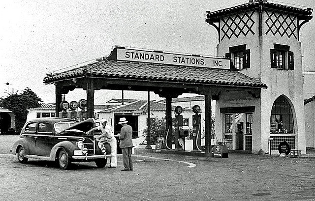 This is a 1939 photograph of a Standard Stations filling station in California. It is available at - It shows one of the independent gas stations that the WP article Standard Oil Co. v. United States concerns. Other information Works published before 1976 without a copyright notice fell into the public domain upon publication under the then applicable 1909 Act